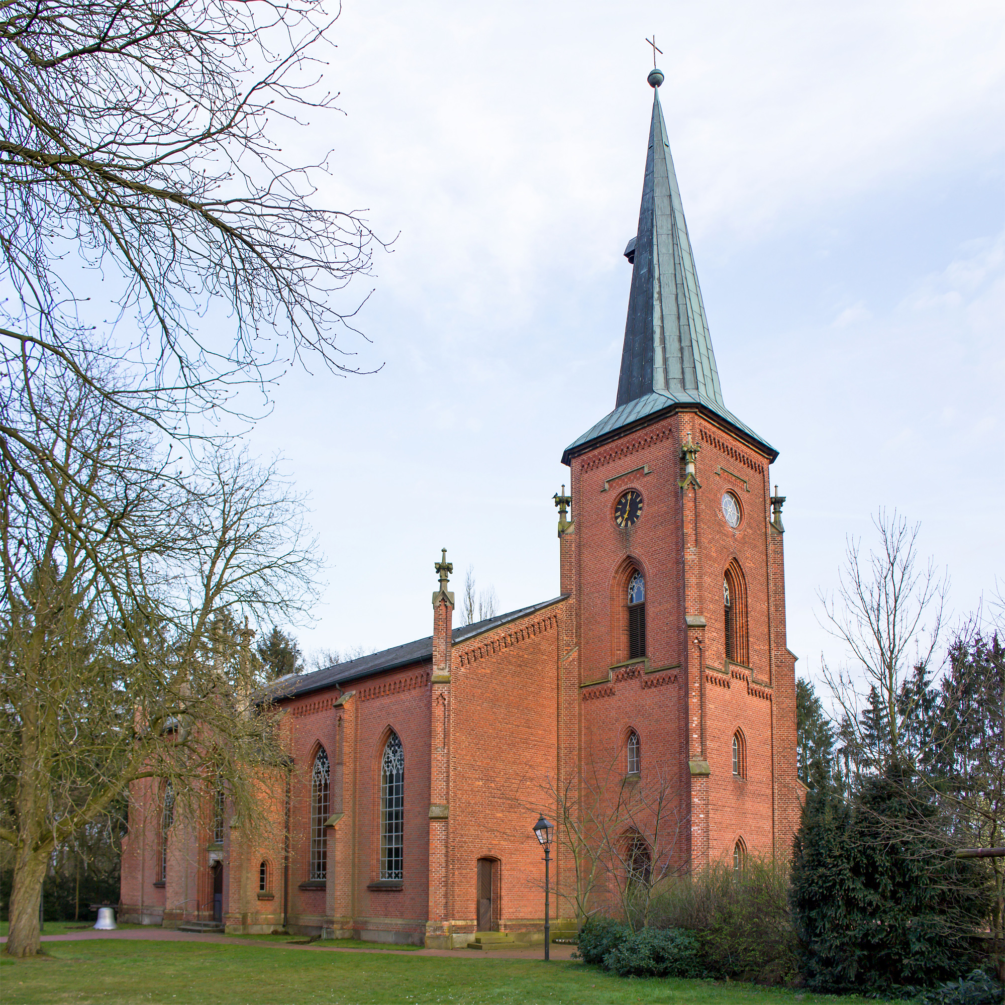 Church St. John in the village Rosche (northern Germany).